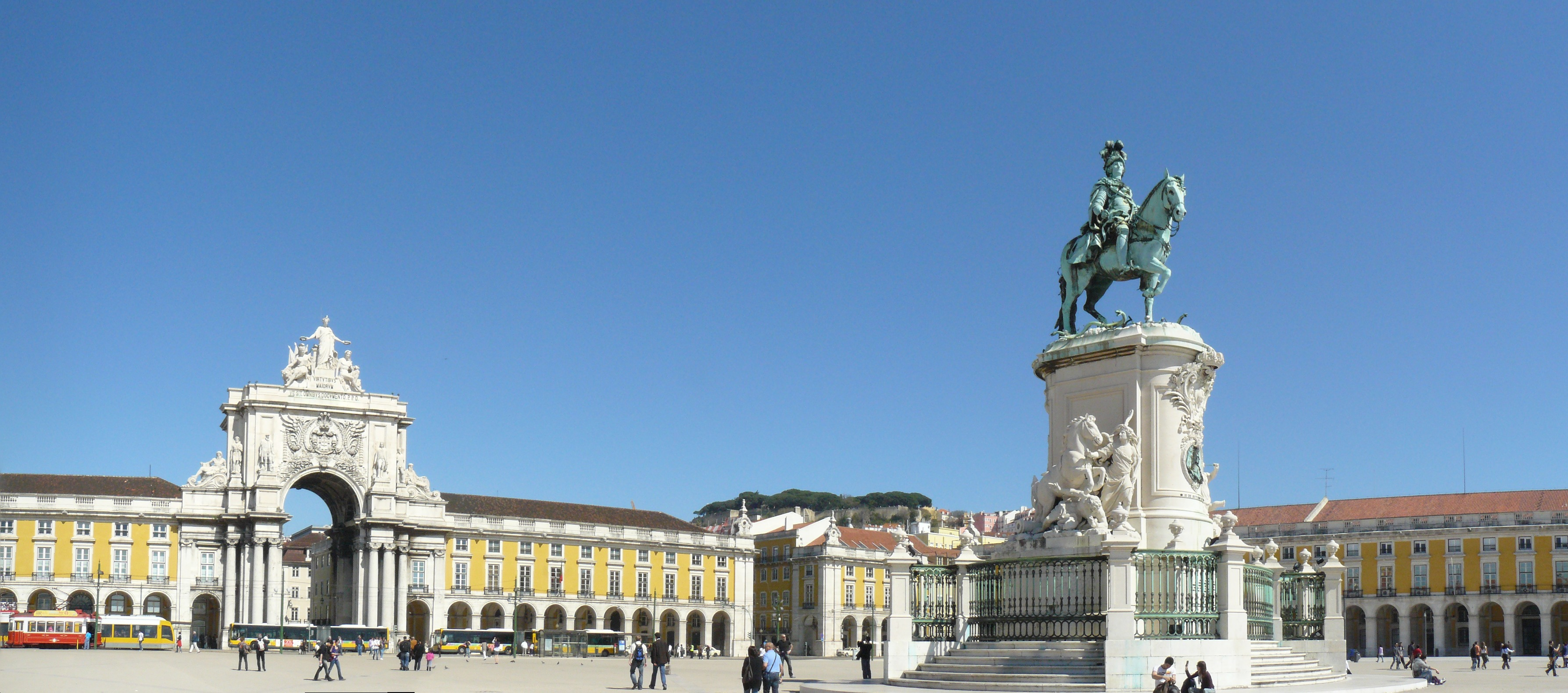 Praca do Comercio and statue of Jose I of Portugal, Lisbon.